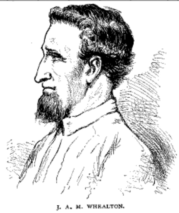 John Whealton, a locally-well-known resident of Chincoteague Virginia circa 1861 (probably made in 1876)